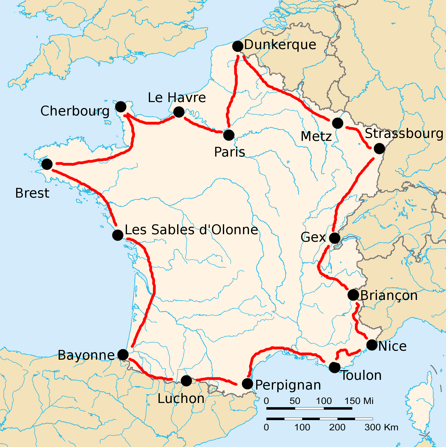 Route of the 1924 Tour de France, starting in Paris, run counter-clockwise.